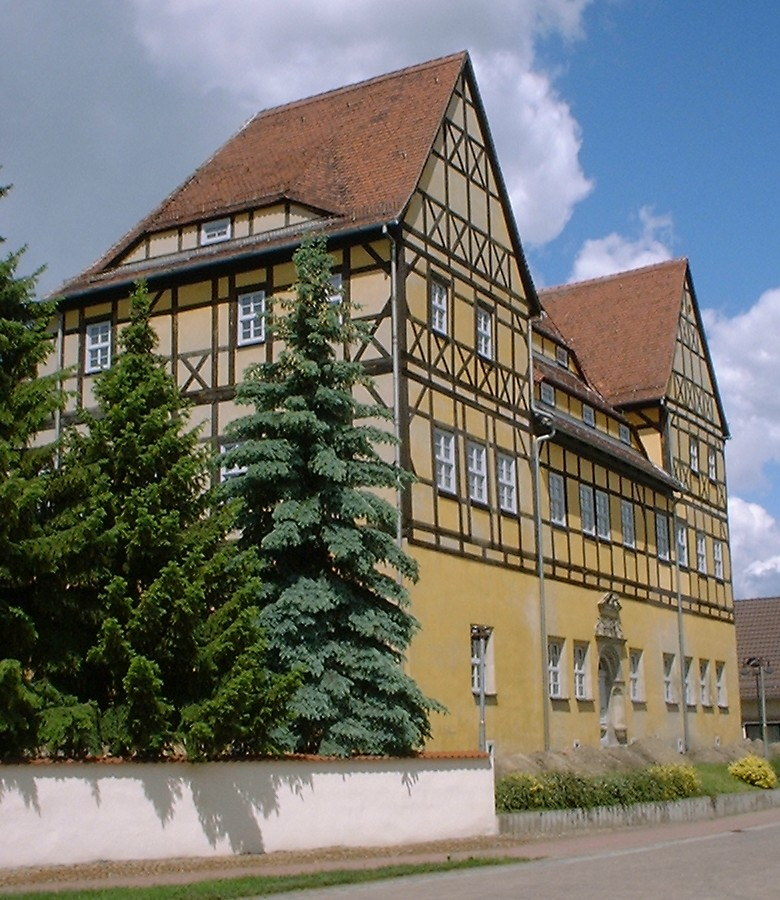 Former court house in Seyda in Saxony-Anhalt, Germany